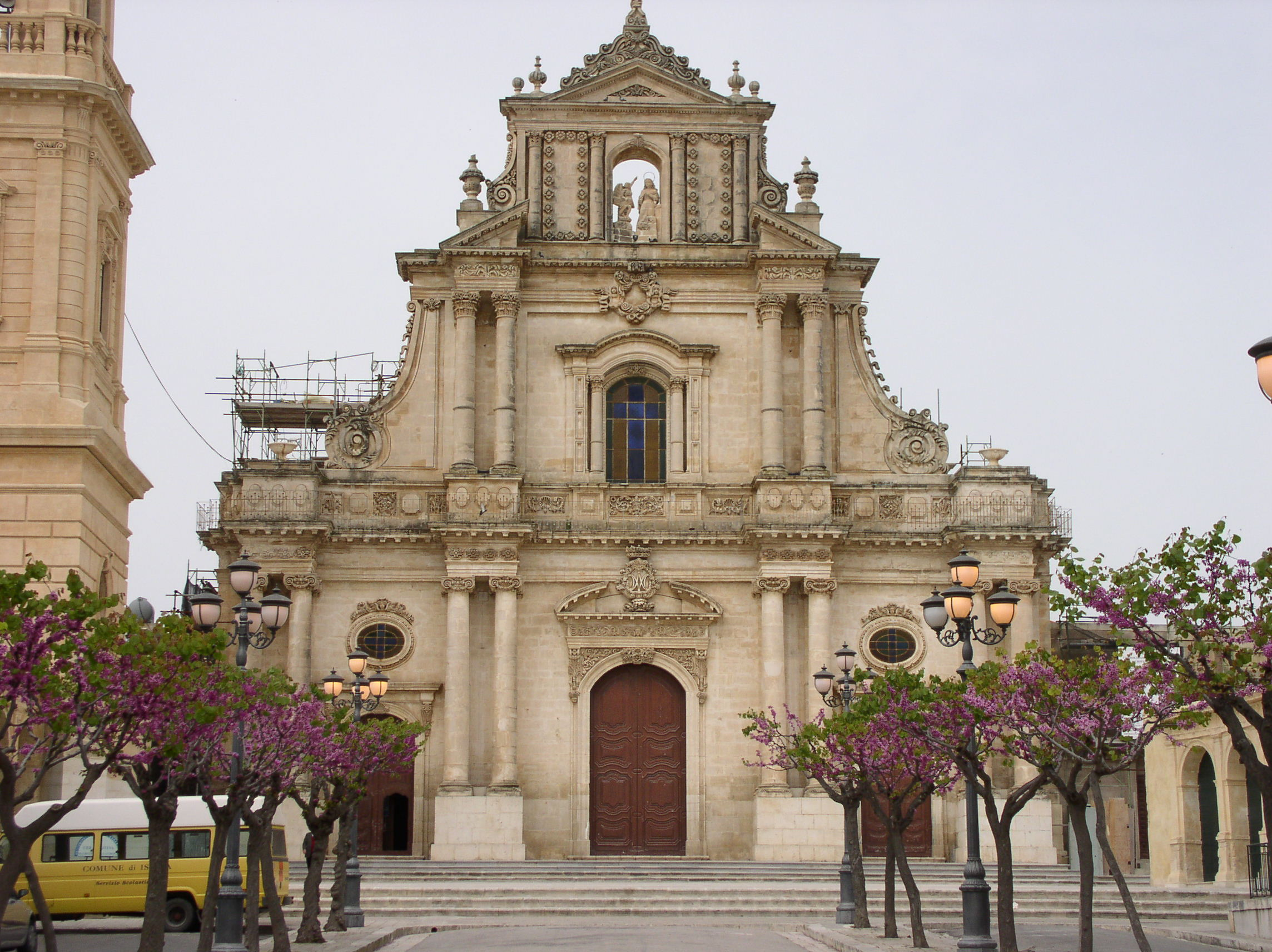 Author: Giuseppe Melfi